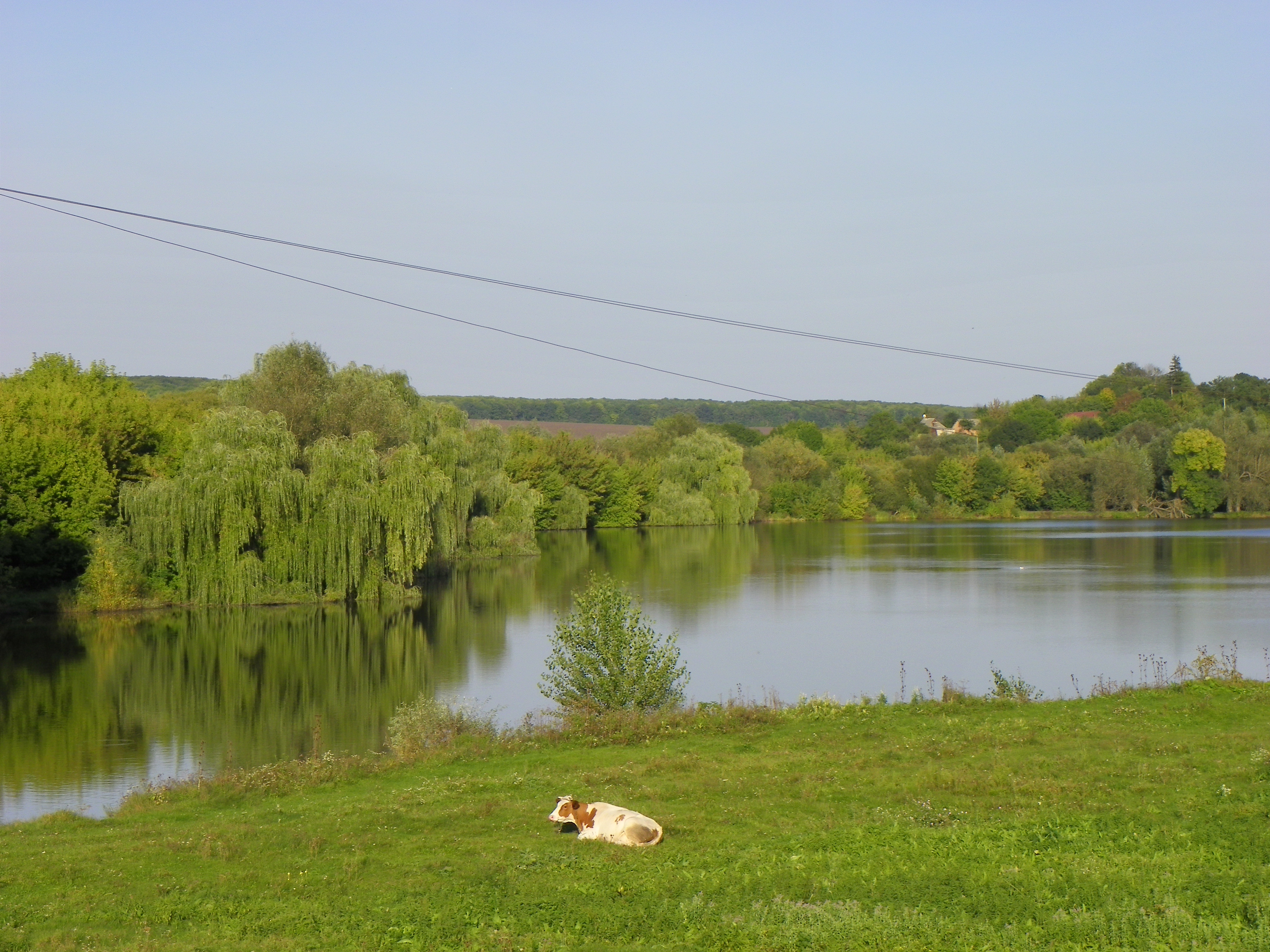 Pond in Dziunkiv village, Vinnytsa region, Ukraine.